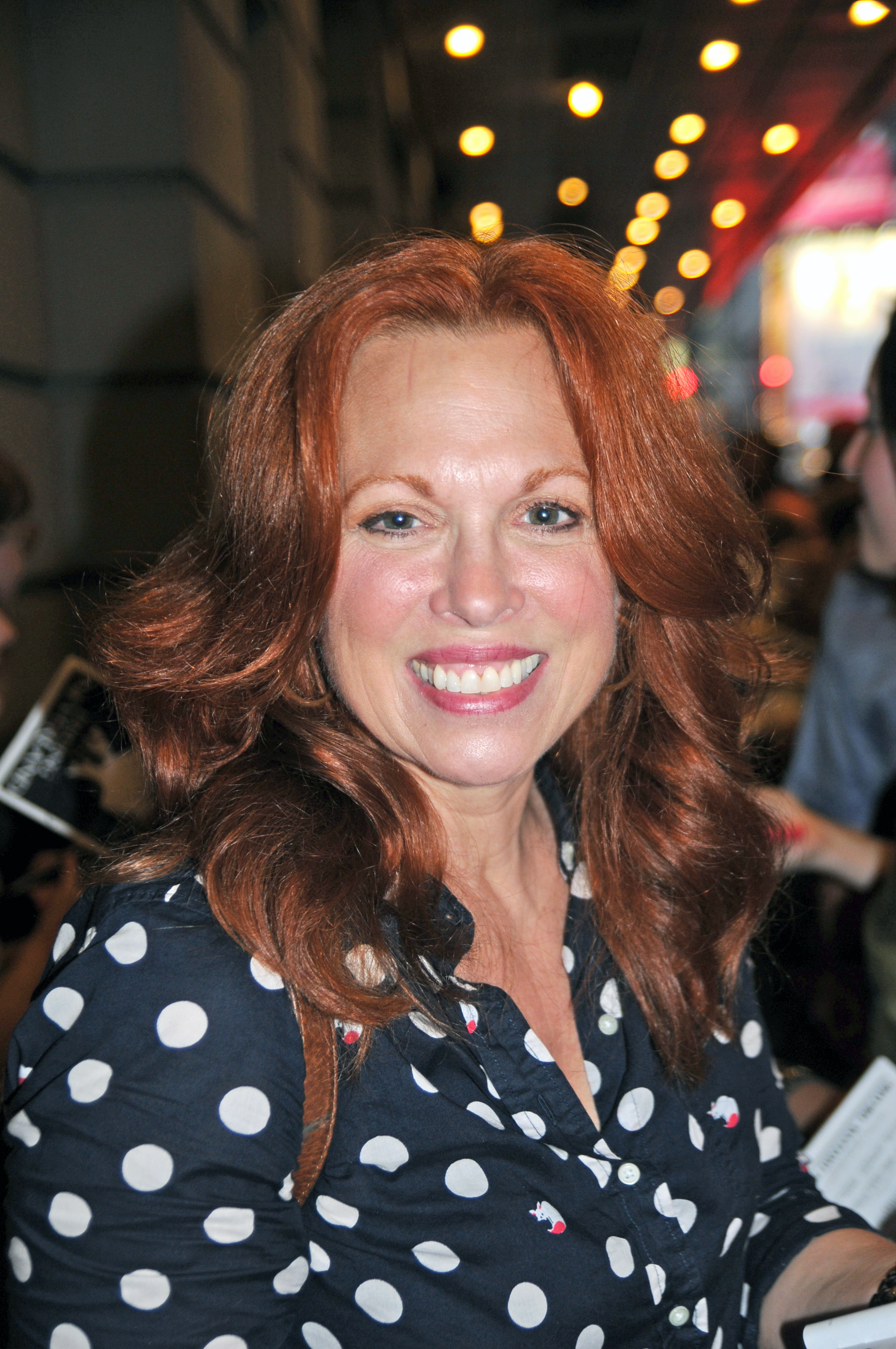 American actress Carolee Carmello at the Broadway production of Finding Neverland.